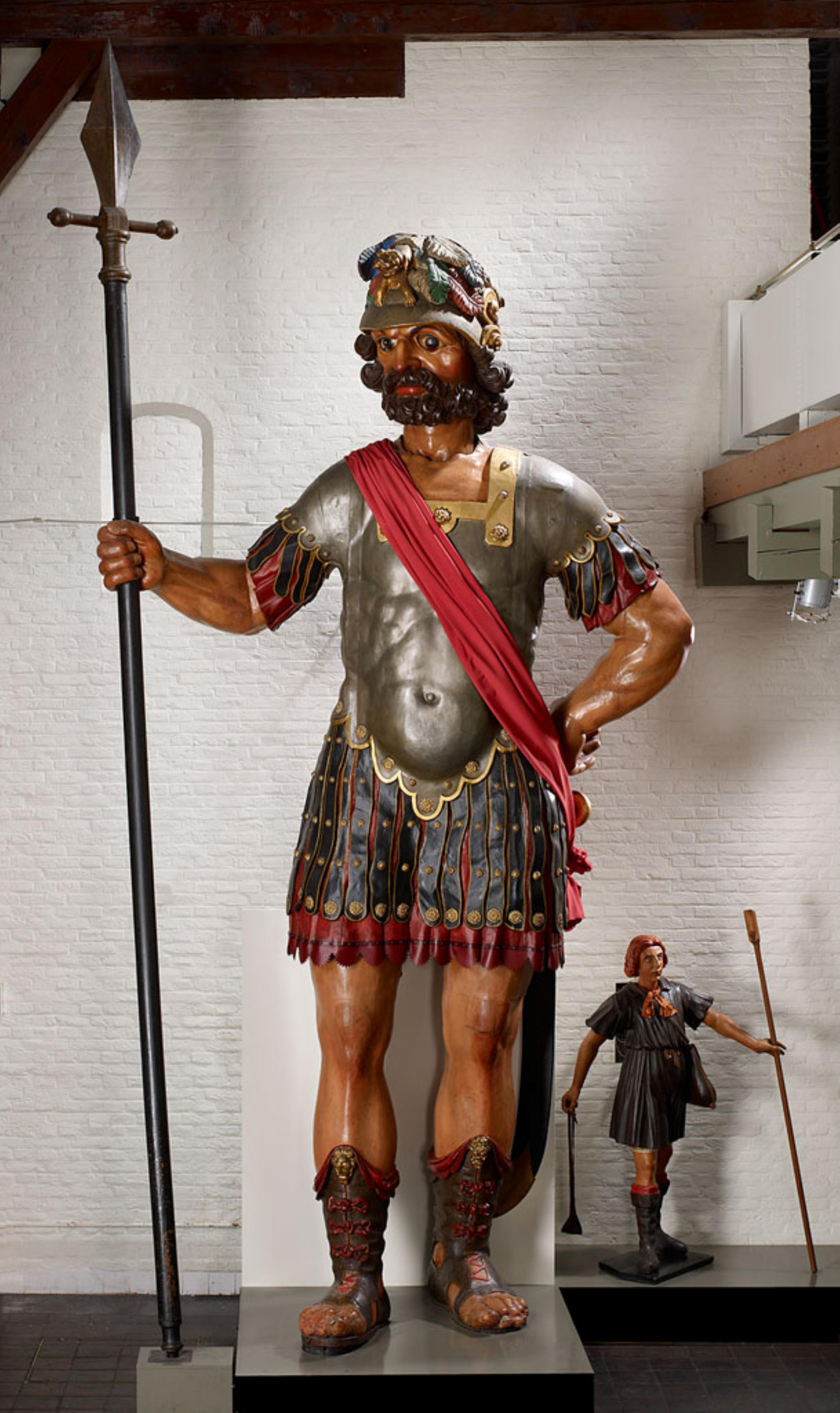 Originally, the wooden figures of David, Goliath and his bearer were made for the Amsterdam pleasure gardens called the 'Oude Doolhof' [The Old Maze]. Founded prior to 1625, it continued to exist right up to 1862. The gardens were not merely famous for the maze, fountains and arbours but also for the collection of figures. This comprised single specimens as well as groups representing mythological, biblical and historical personalities and events. The head and the eyes of Goliath can be manipulated with the aid of mechanical contrivances.